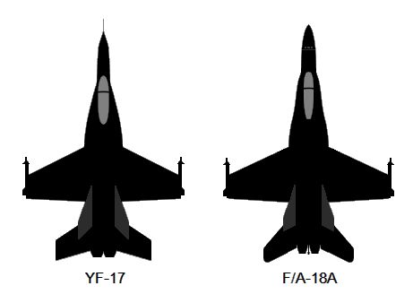 Top-view silhouette comparison between the YF-17 and the F/A-18A